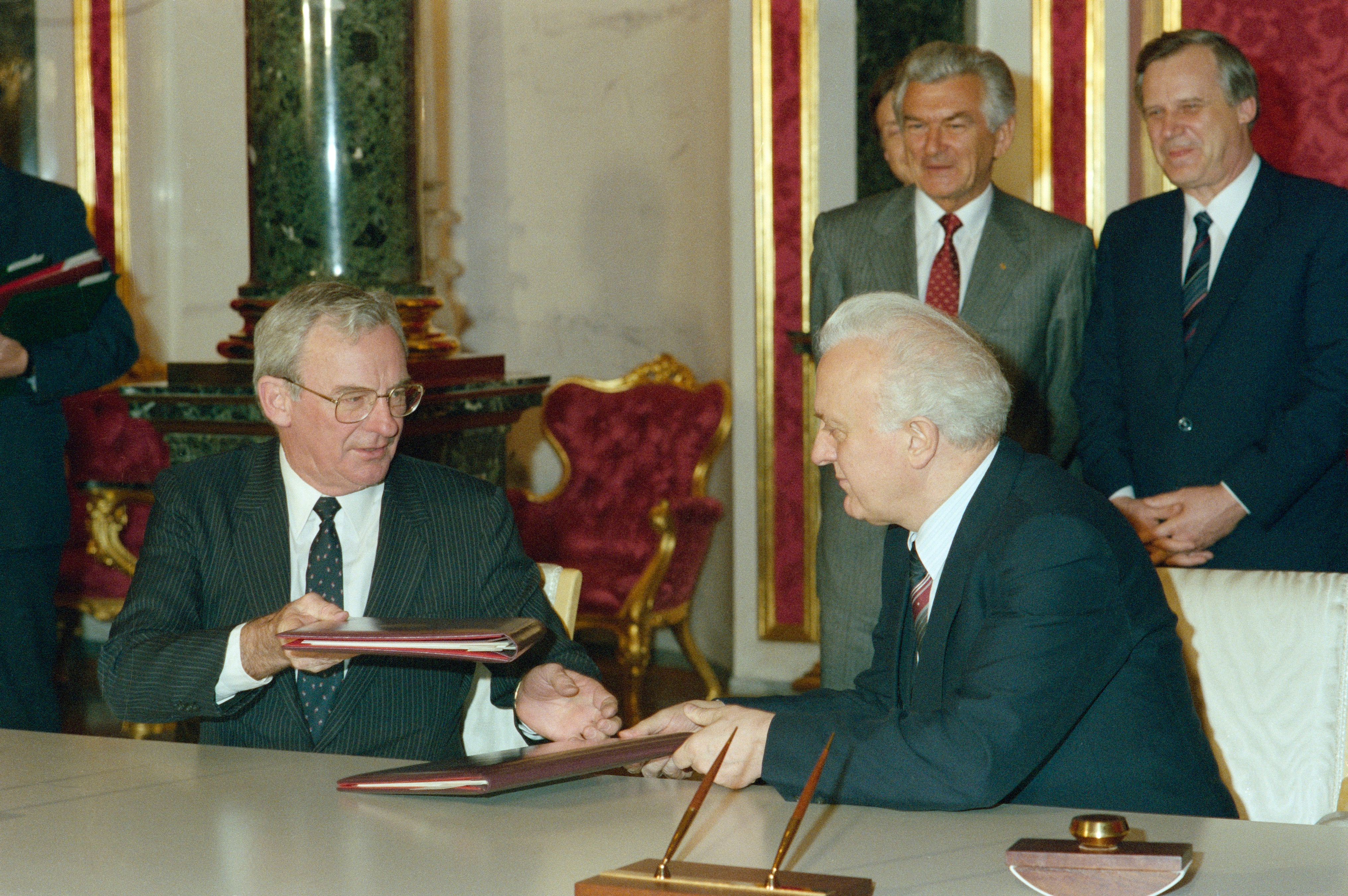 Foreign Minister Bill Hayden with Soviet Foreign Minister Eduard Shevardnadze sign an agreement in Moscow.